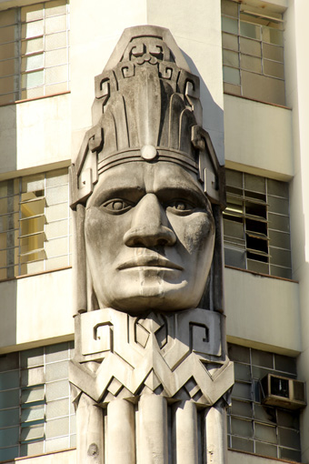 edificio